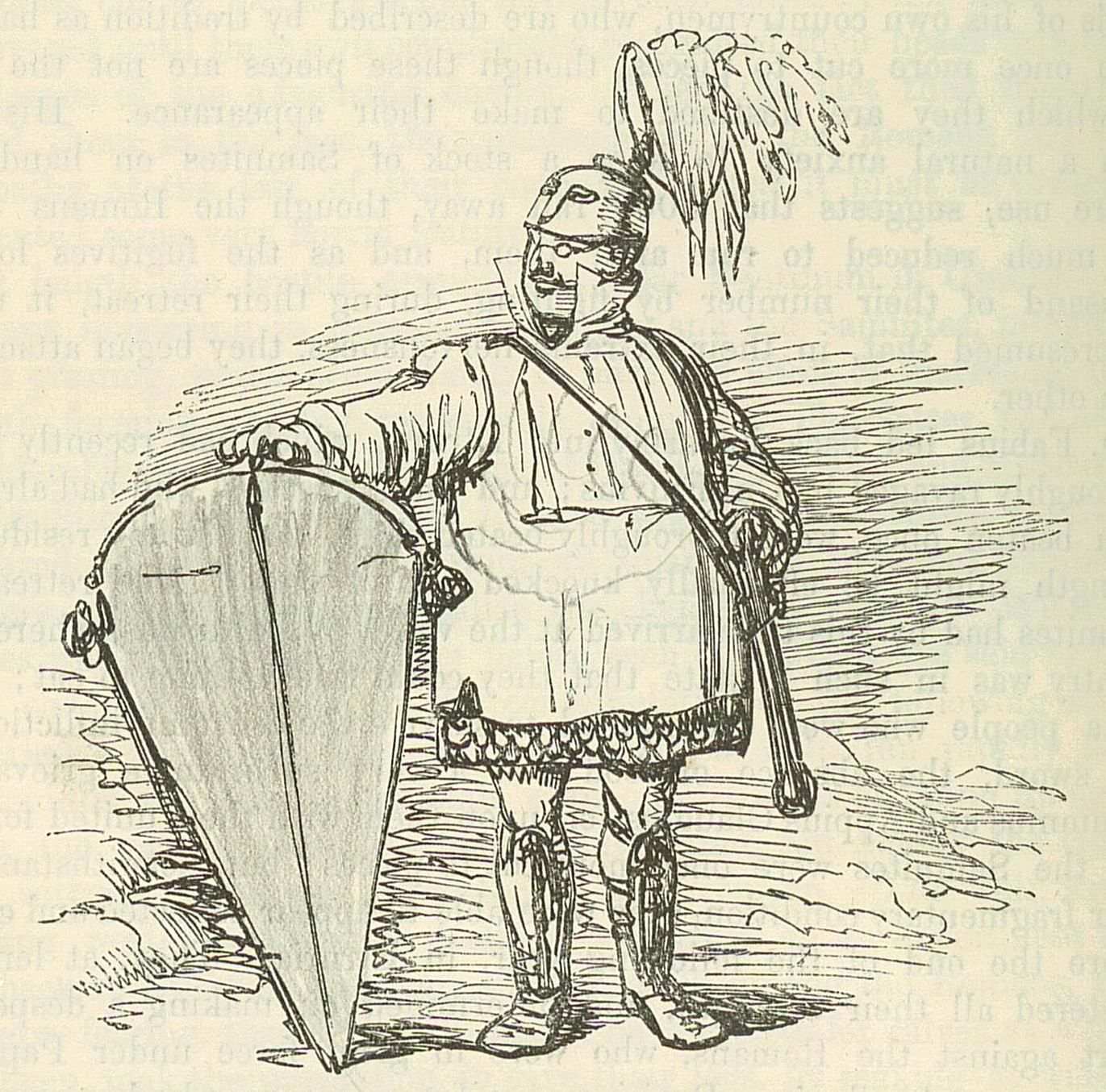 Image by John Leech, from: The Comic History of Rome by Gilbert Abbott A Beckett. Bradbury, Evans & Co, London, 1850s Samnite Soldier